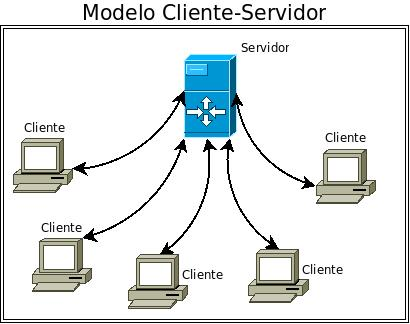 Client-Servidor